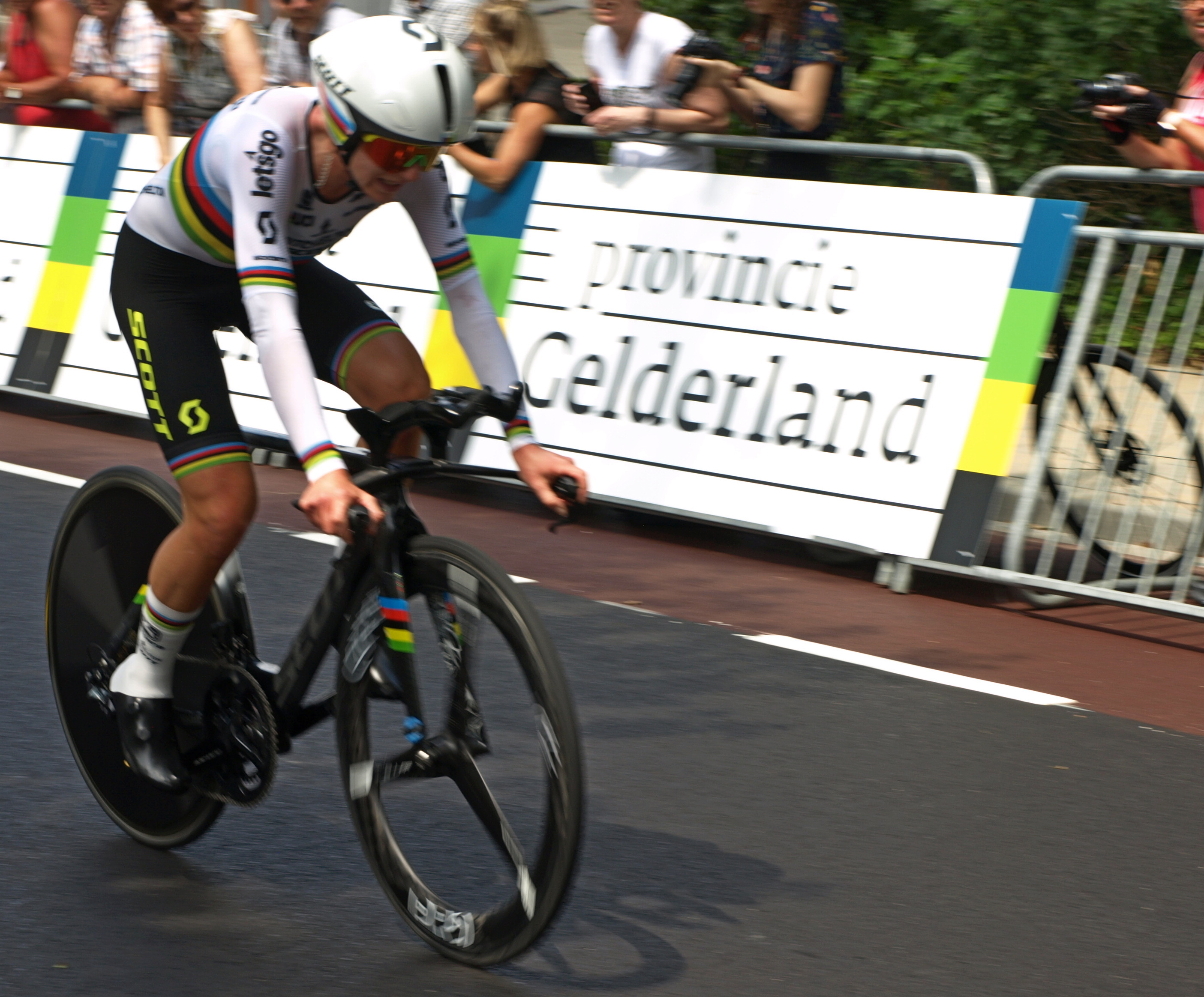 Dutch Championship Cycling 2019 Time Trial Women. Annemiek van Vleuten at the finish.